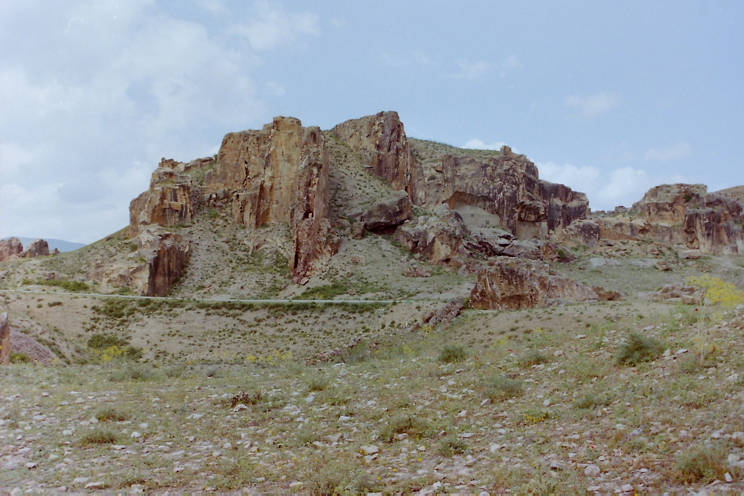 Marble quarry in Chemtou, Tunisia